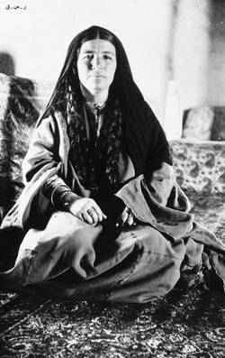 A Circassian woman sent to Muhammad al Rashid by the Sultan as a gift (not Fatima Al-Sabhan), Hail, 1911-1914.